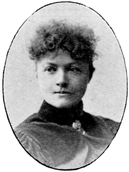 Image scanned from the book "Svenskt Porträttgalleri XX - Arkitekter, Bildhuggare, Målare m.fl. " ("Swedish Portrait Gallery XX - Architects, Sculptors, Painters, ") published 1901